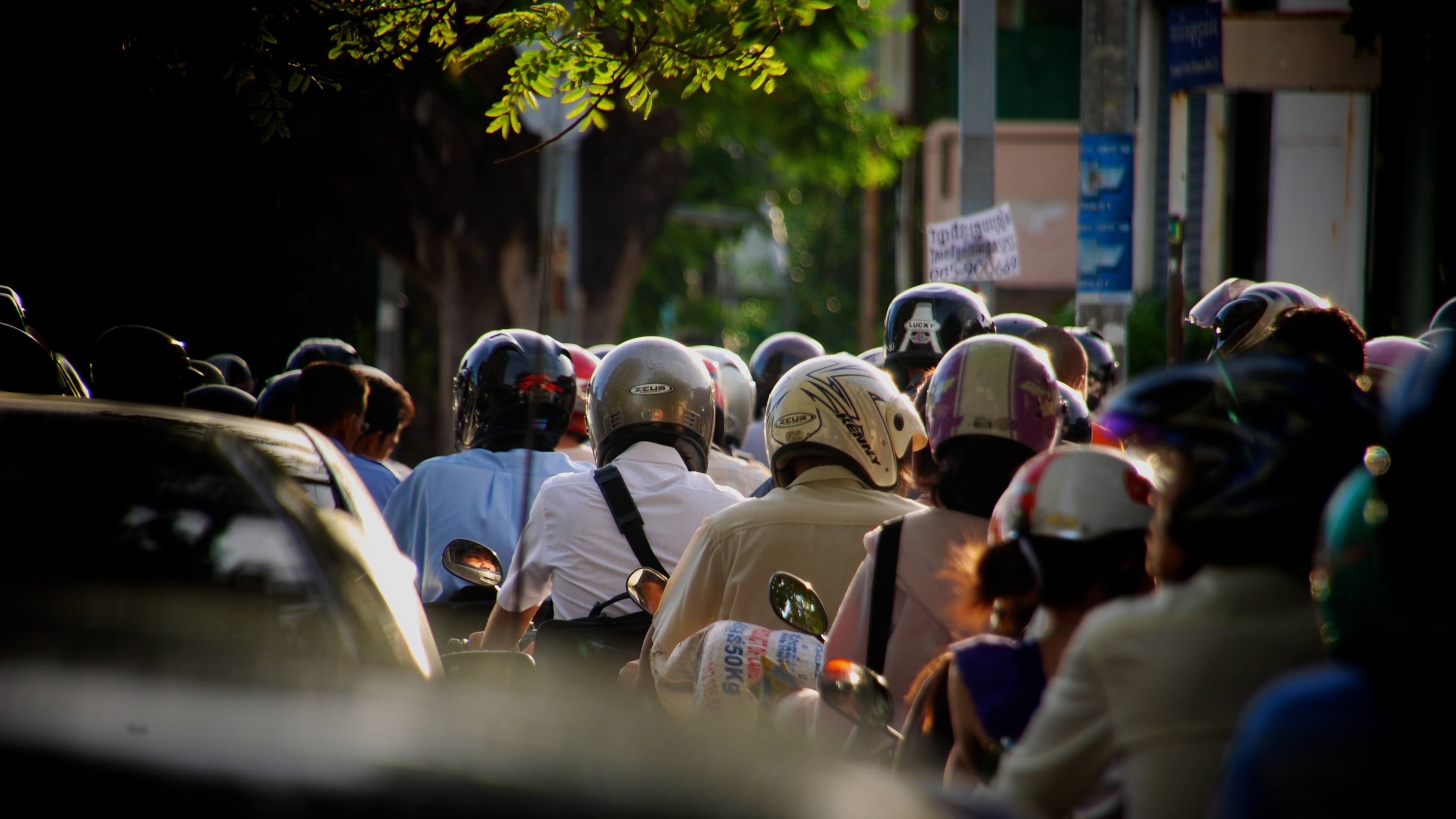 Common motorcycle/scooter traffic in Phnom Penh.